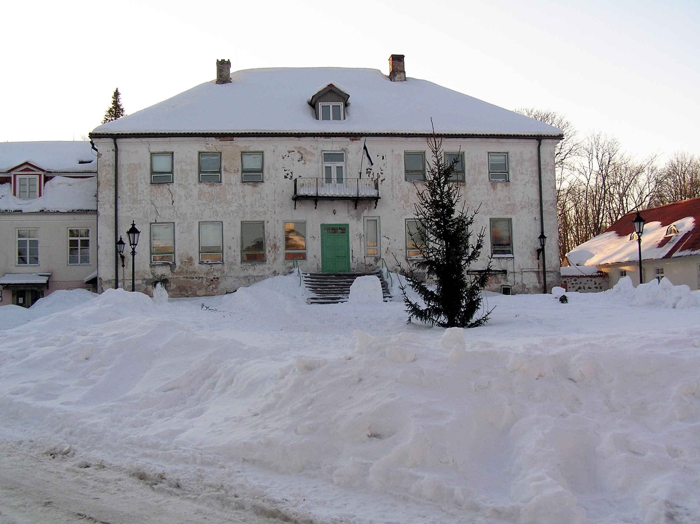 Rogosi manor